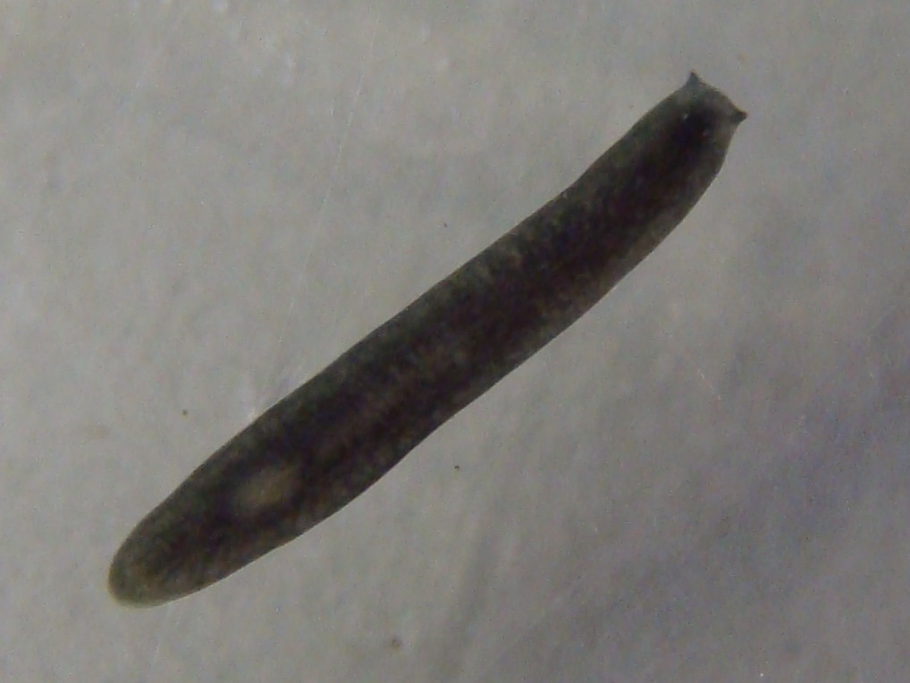 Crenobia alpina from Catalonia.